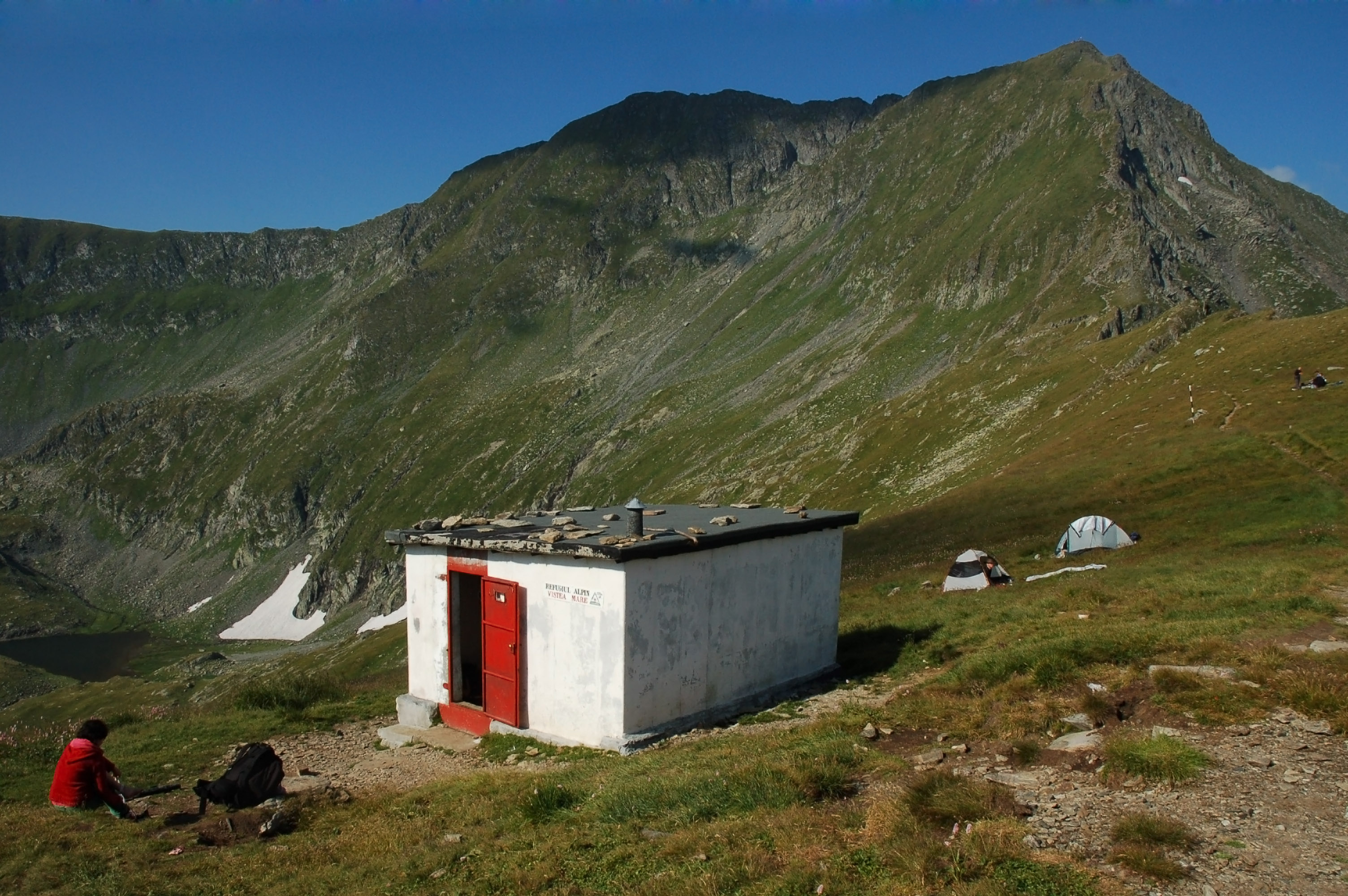 The southern side of Moldoveanu (on the left) and Vistea Mare (right) from Refuge Vistea in the Făgăraş Mountains, Romania